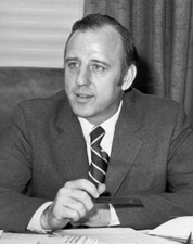 Former Senator Charles Goodell (R-NY). From the United States Senate Historical Office.